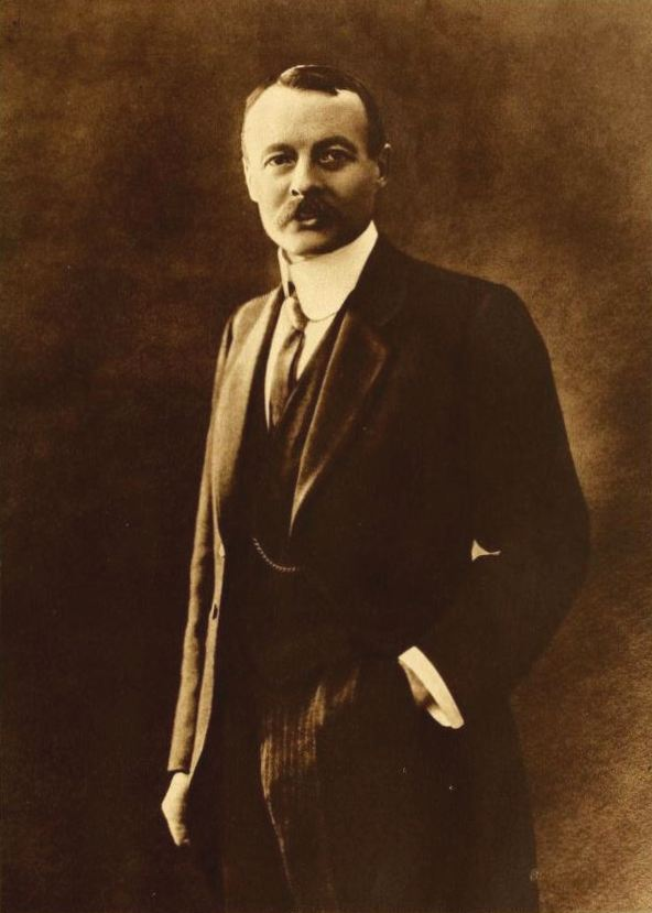 French film producer Charles Pathé, on the insert after page 1762 of the June 21, 1919 Moving Picture World.